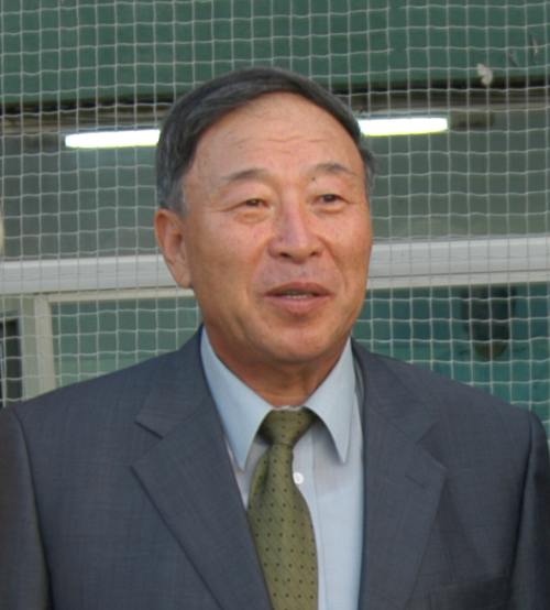 김응용 Kim Eung Ryong, president of Samsung Lions. Cropped from a photo on the 19th Sustainment Command (Expeditionary) 's World Wide Web site. Original caption: Photo by Sgt. Park, Myung Joon Kim, Eung Ryung, president of Samsung Lions, presents Samsung Lions memorabilia to the Commanding General of the 19th ESC, Maj. Gen. Timothy P. McHale to celebrate the proclamation of support between the Samsung Lions and the 19th ESC.